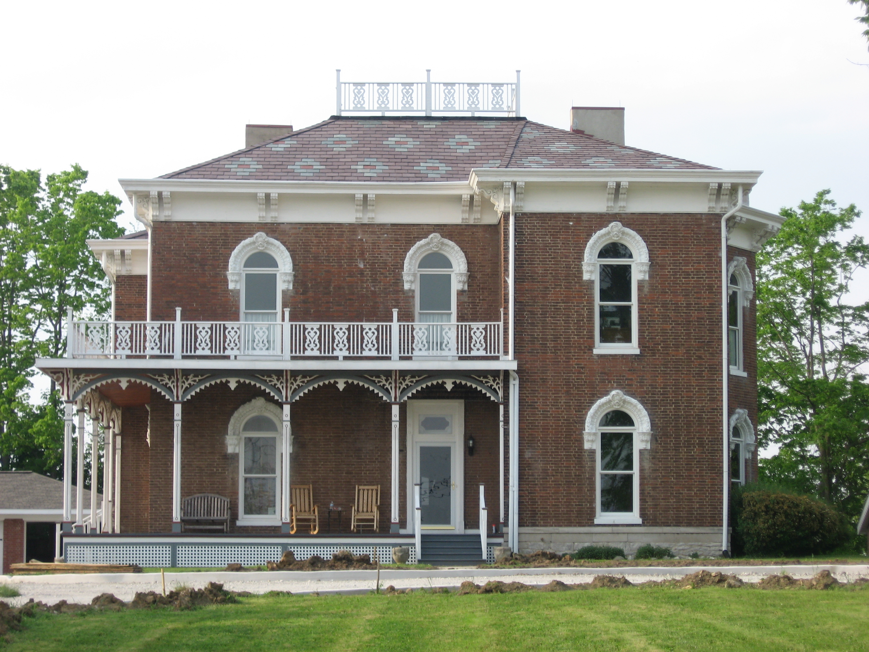 Front of the Richard M. Hazelett House, located at 911 E. Washington Street in Greencastle, Indiana, United States. Built in 1868, it is listed on the National Register of Historic Places.